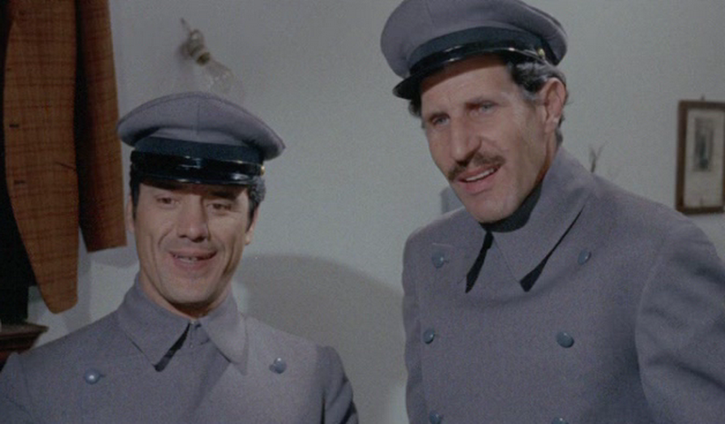 Franco Franchi and Ciccio Ingrassia in a scene of the film Nel sole